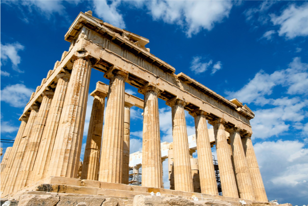 Ancient Greece